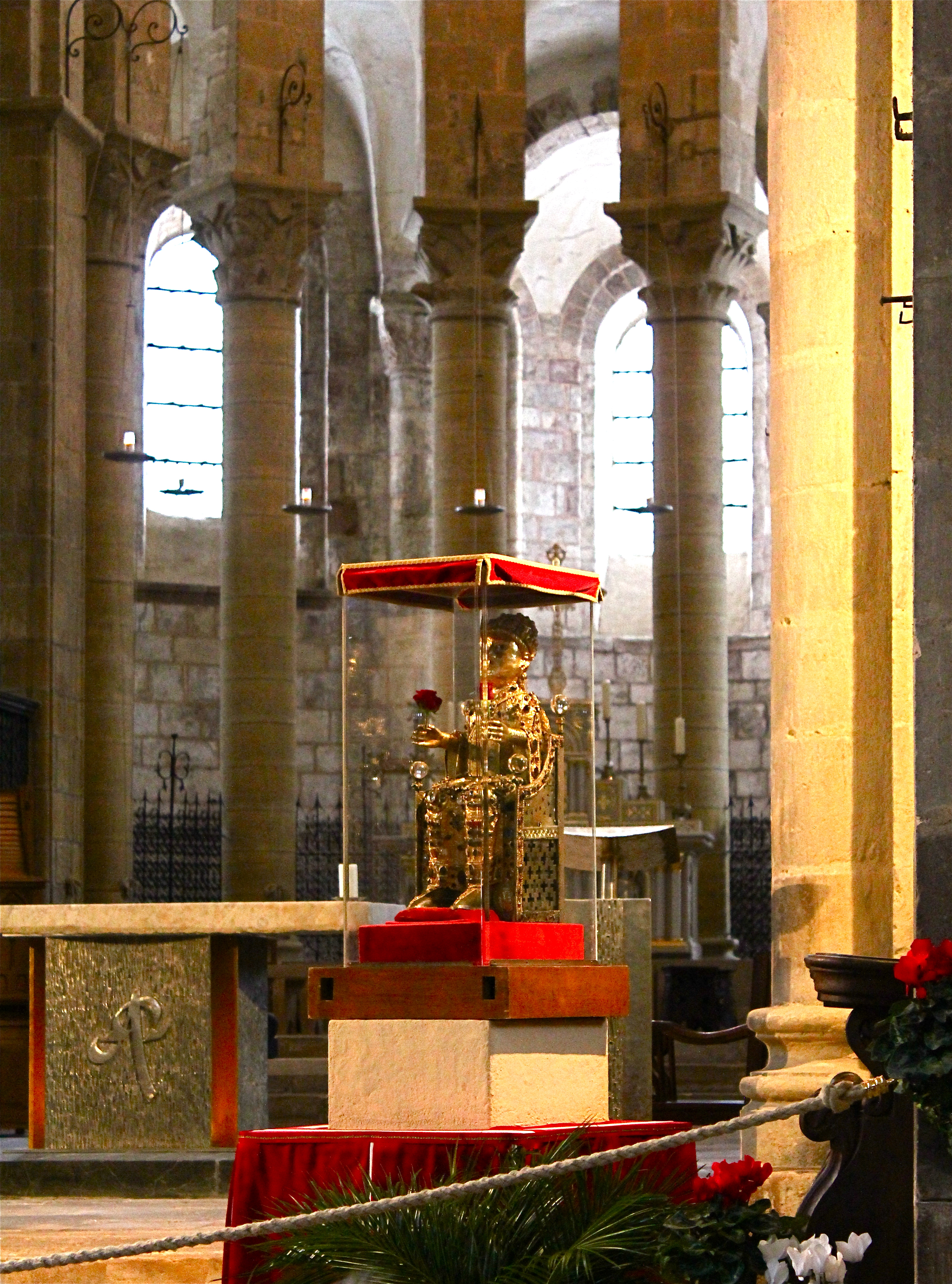 Ninth or tenth-century reliquary of Saint Faith exhibited in the Sainte-Foy abbey church on the Saint Faith's Day 2010-10-10.